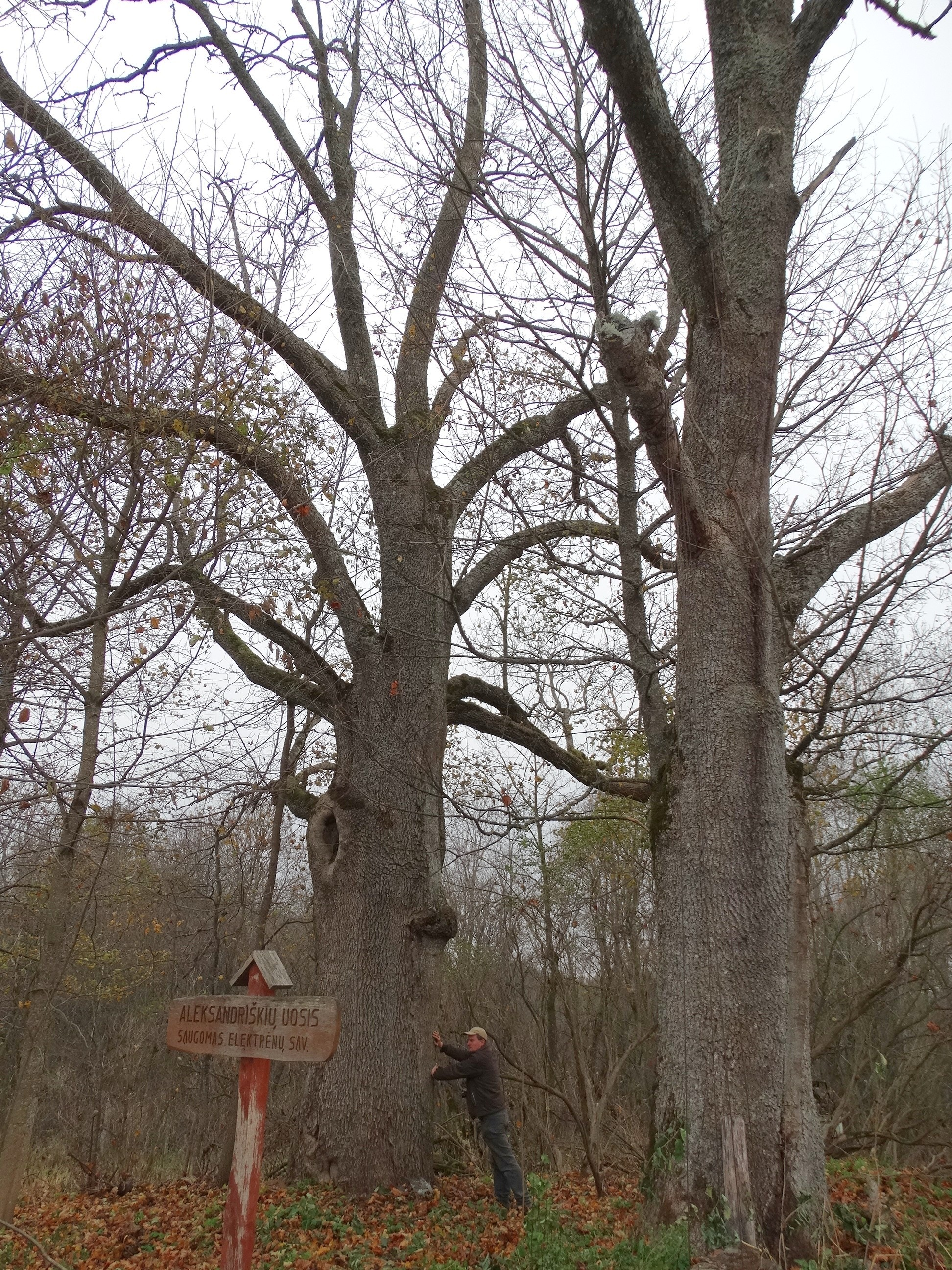 Fraxinus excelsior tree, Aleksandriškės, Elektrėnai Municipality, Lithuania